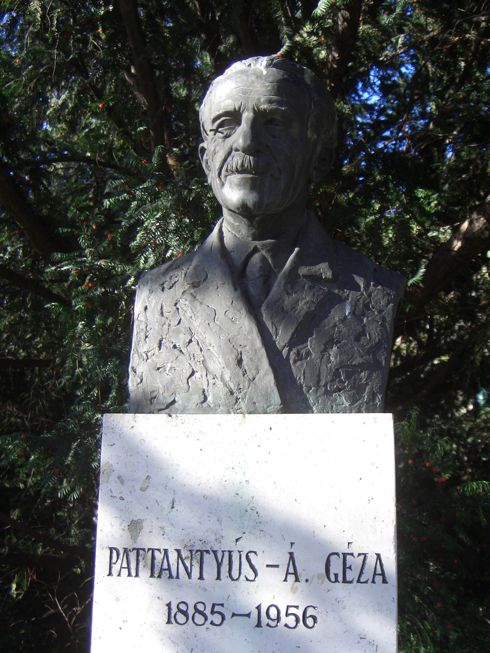 Memorial of Prof. Géza Pattantyús-Ábrahám, Mechanical Engineer, Professor of the Budapest Technical University (1885-1956)